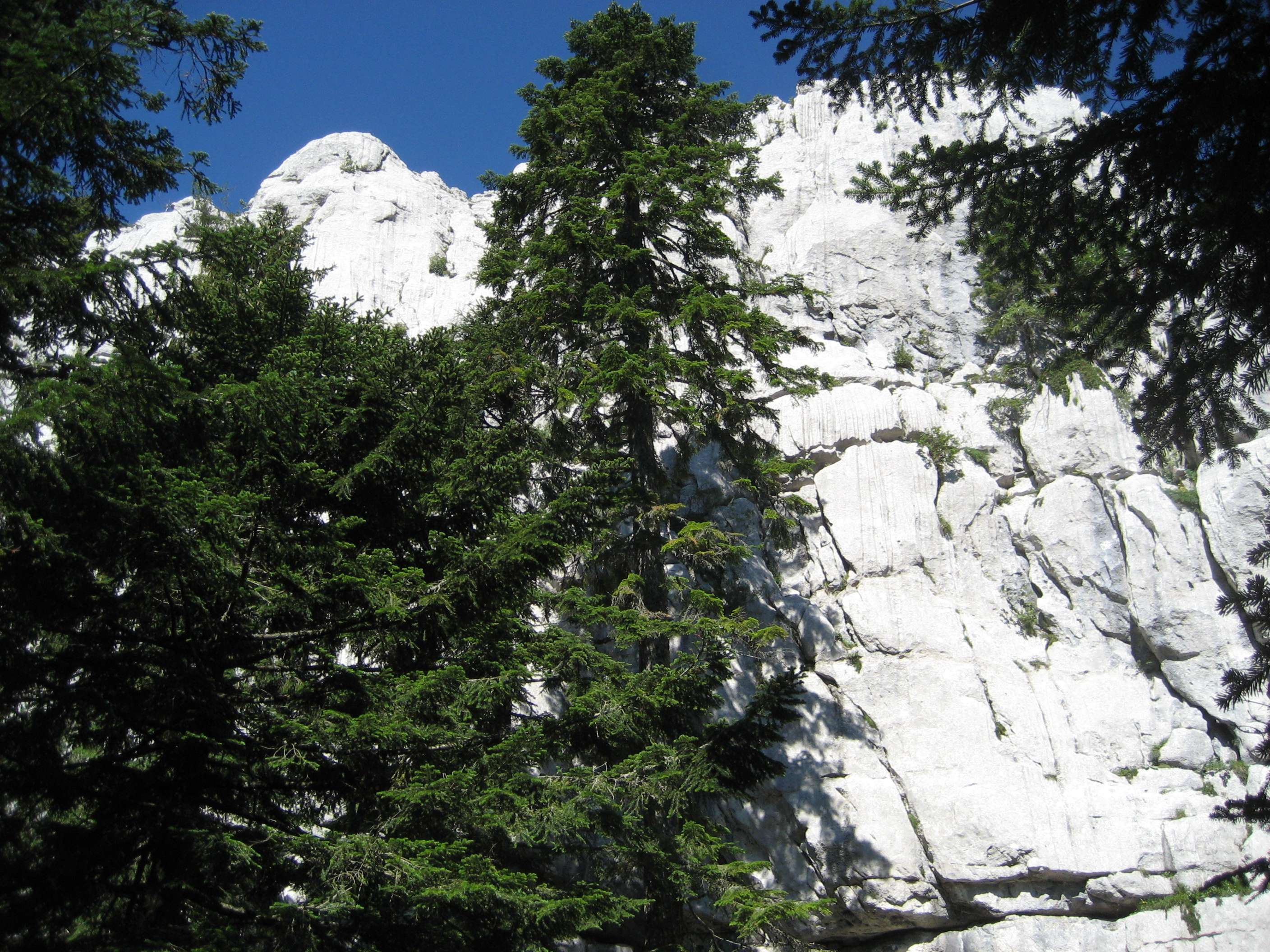 Bijele i samarske stijene, Croatia